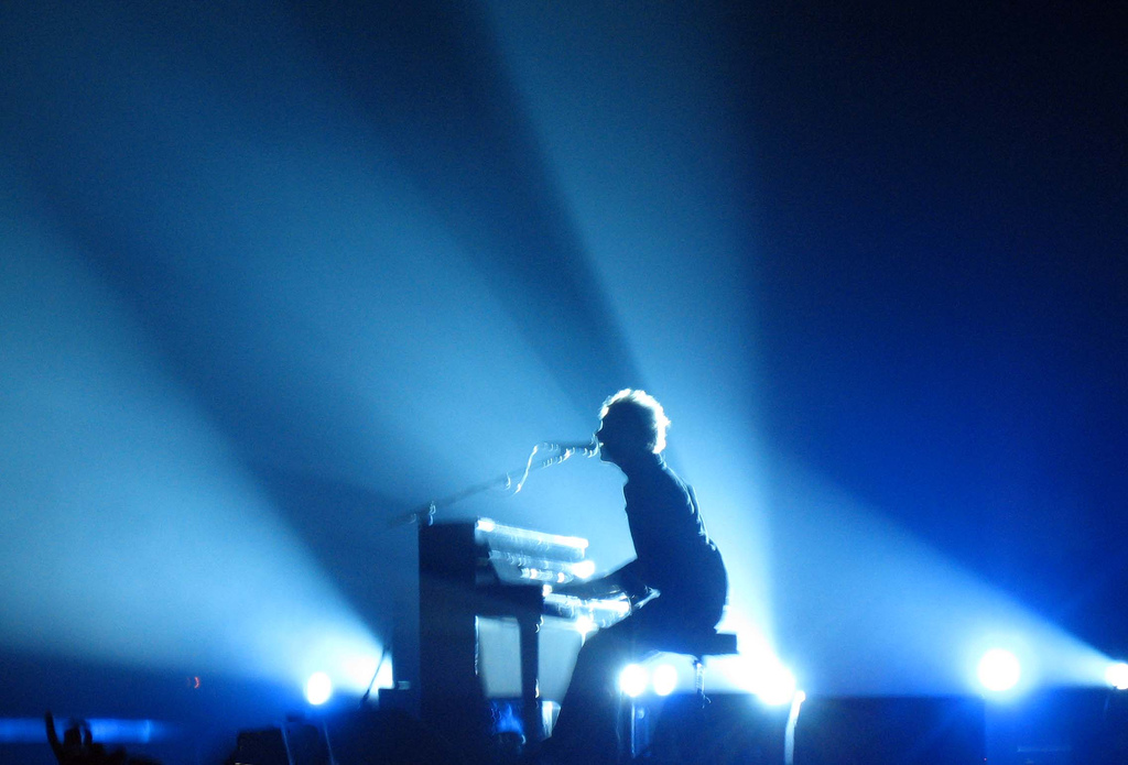 Chris Martin of Coldplay playing piano at a concert in Barcelona in 2005.